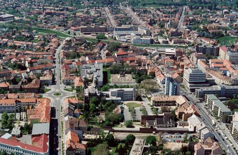 Szombathely, Hungary, aerialphotography